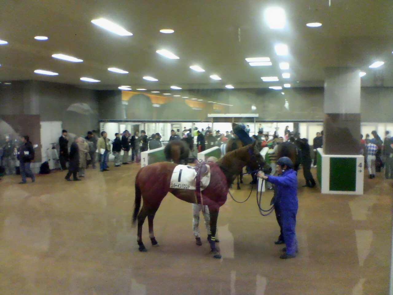 This image shows a weighing room and an underpass from a paddock to courses in Tokyo Race Course,Japan.